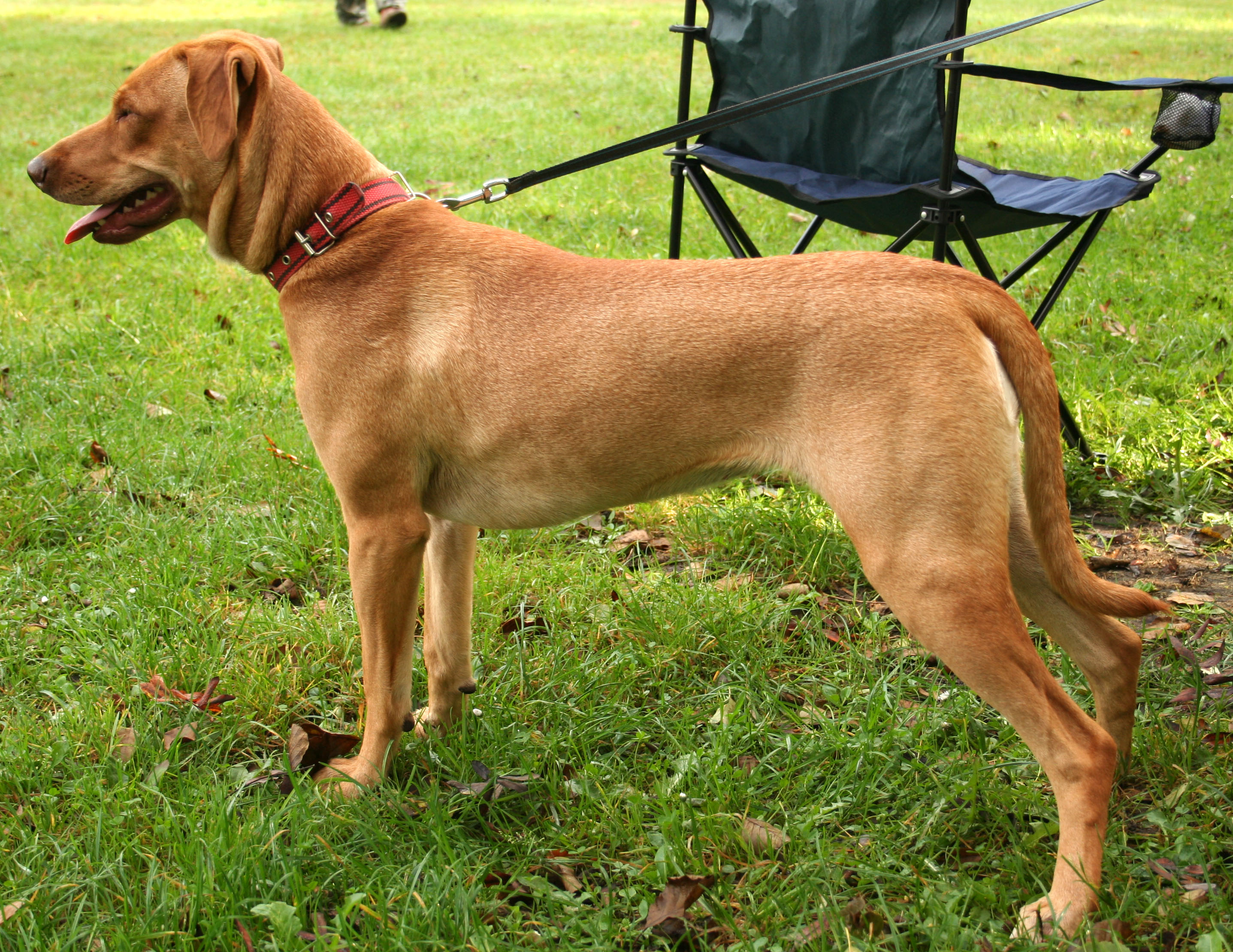 Peruvian Hairless Dog in large size - The person isn't recognized by FCI